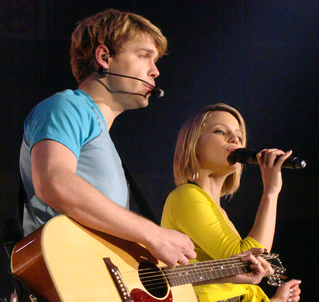 Chord Overstreet as Sam Evans and Dianna Agron as Quinn Fabray, performing "Lucky" on the Glee Live! In Concert! tour.